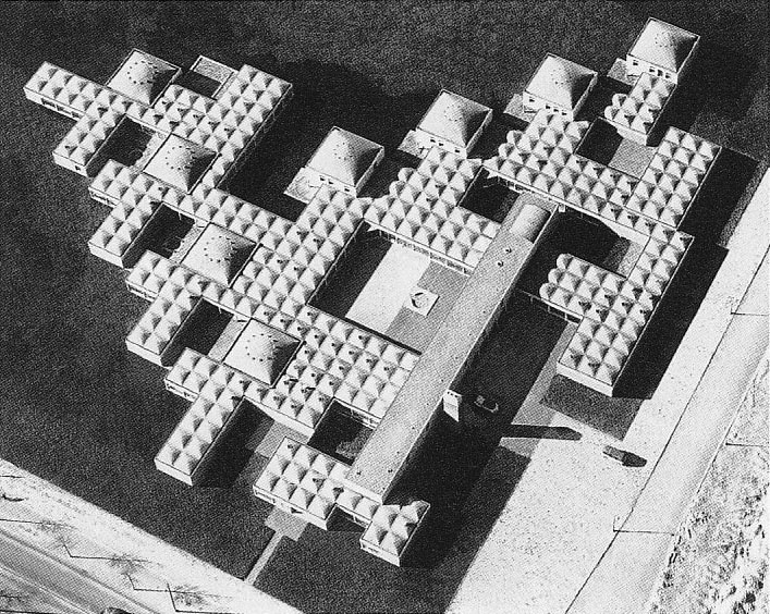 Orphanage in Amsterdam by Aldo van Eyck, (Aerial photo by KLM Aerocarto Schiphol-Oost, 24 February 1960)